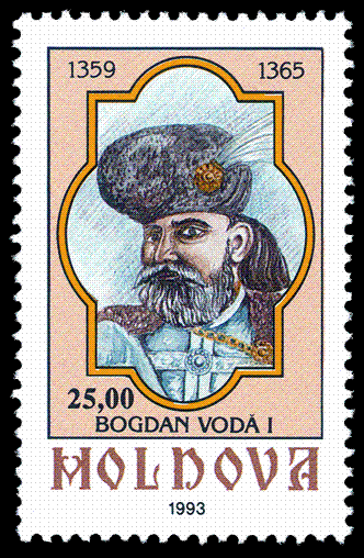 Stamp of Moldova